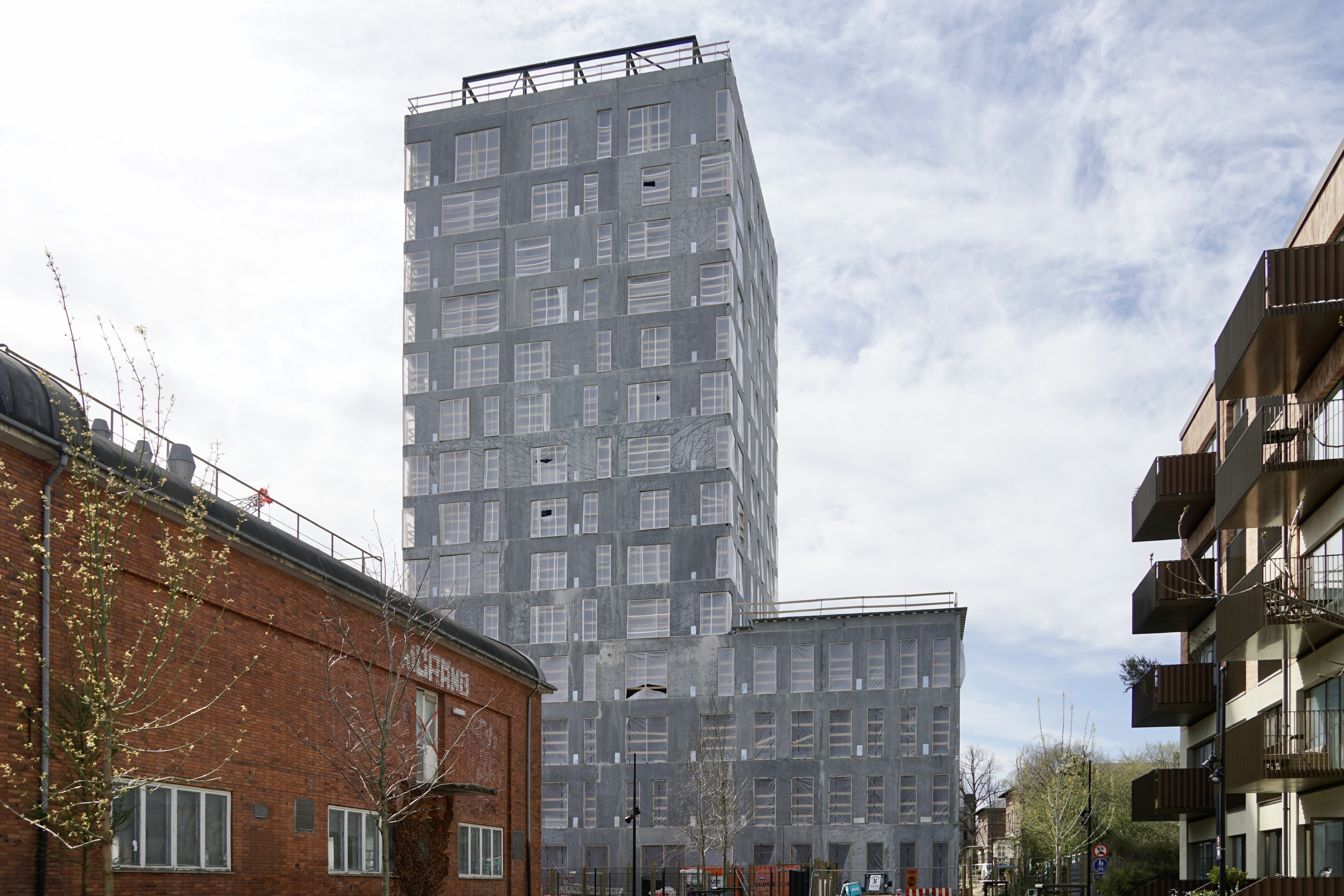 Tuxens tower under construction april 2020